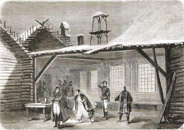 Scene from Act 1 of Daniel Auber's opera La Circassienne as performed at the Opéra-Comique in Paris, 2 February 1861 In the snowbound Russian fort Alexis (dressed as Frascovia) addresses General Orsakoff as a Russian brigadier and Lanskoi look on. The singers depicted from left to right are Barielle, Achille-Félix Montaubry, Ambroise, and Joseph-Antoine-Charles Couderc.